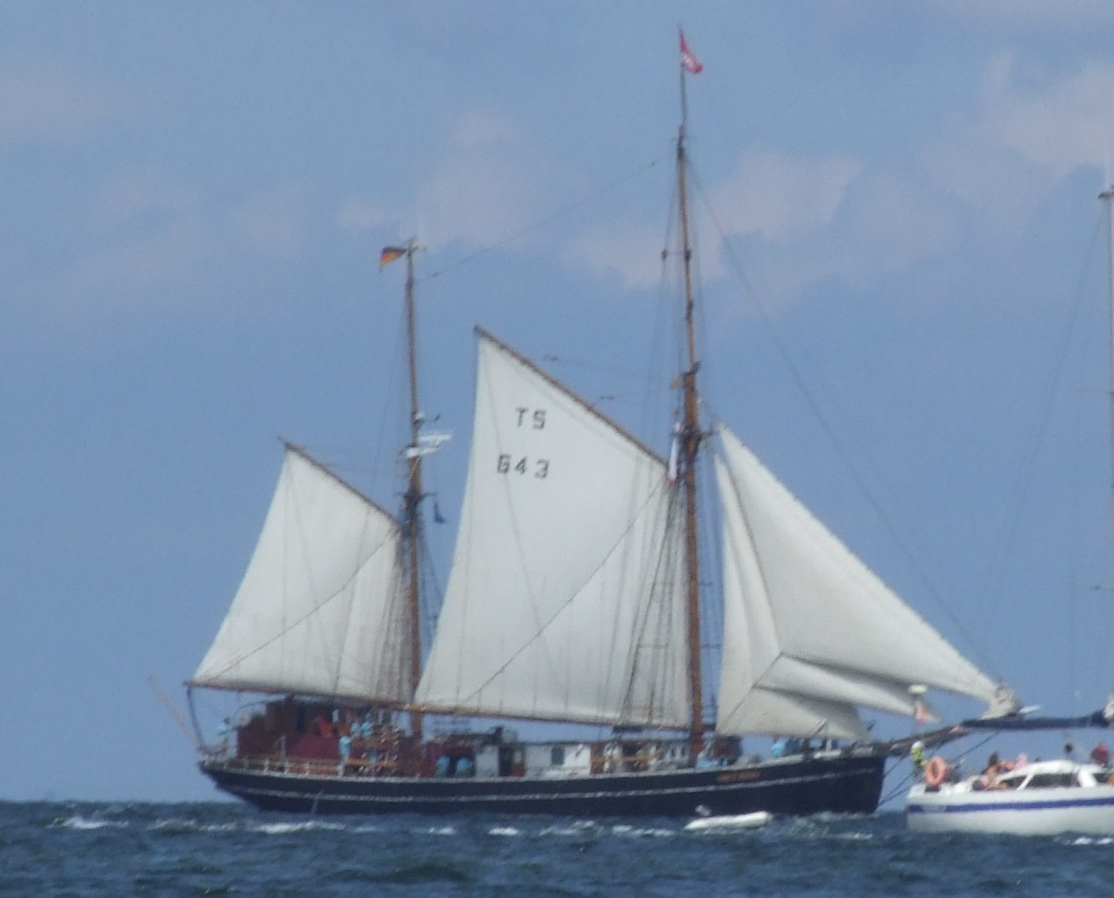 The Tall Ships' Races, Gdynia 02-05.07.2009; a view from Redłowo beach